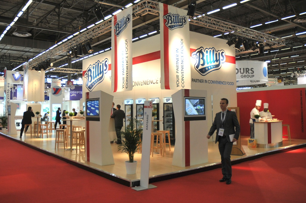 billys stand at the food expo SIAL 2008